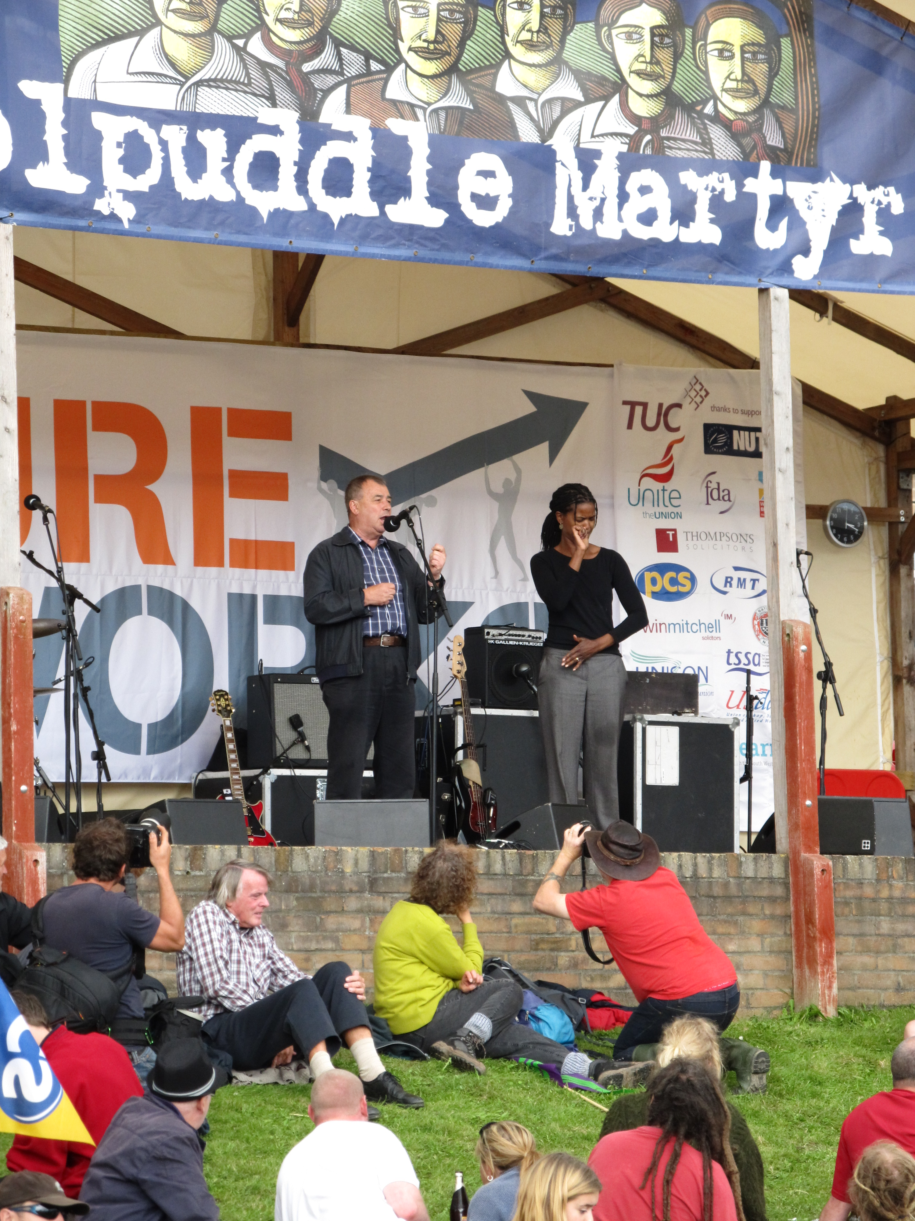 Brendan Barber, General Secretary of the Trades Union Congress, speaking at the Tolpuddle Martyrs' Festival and Rally 2012.